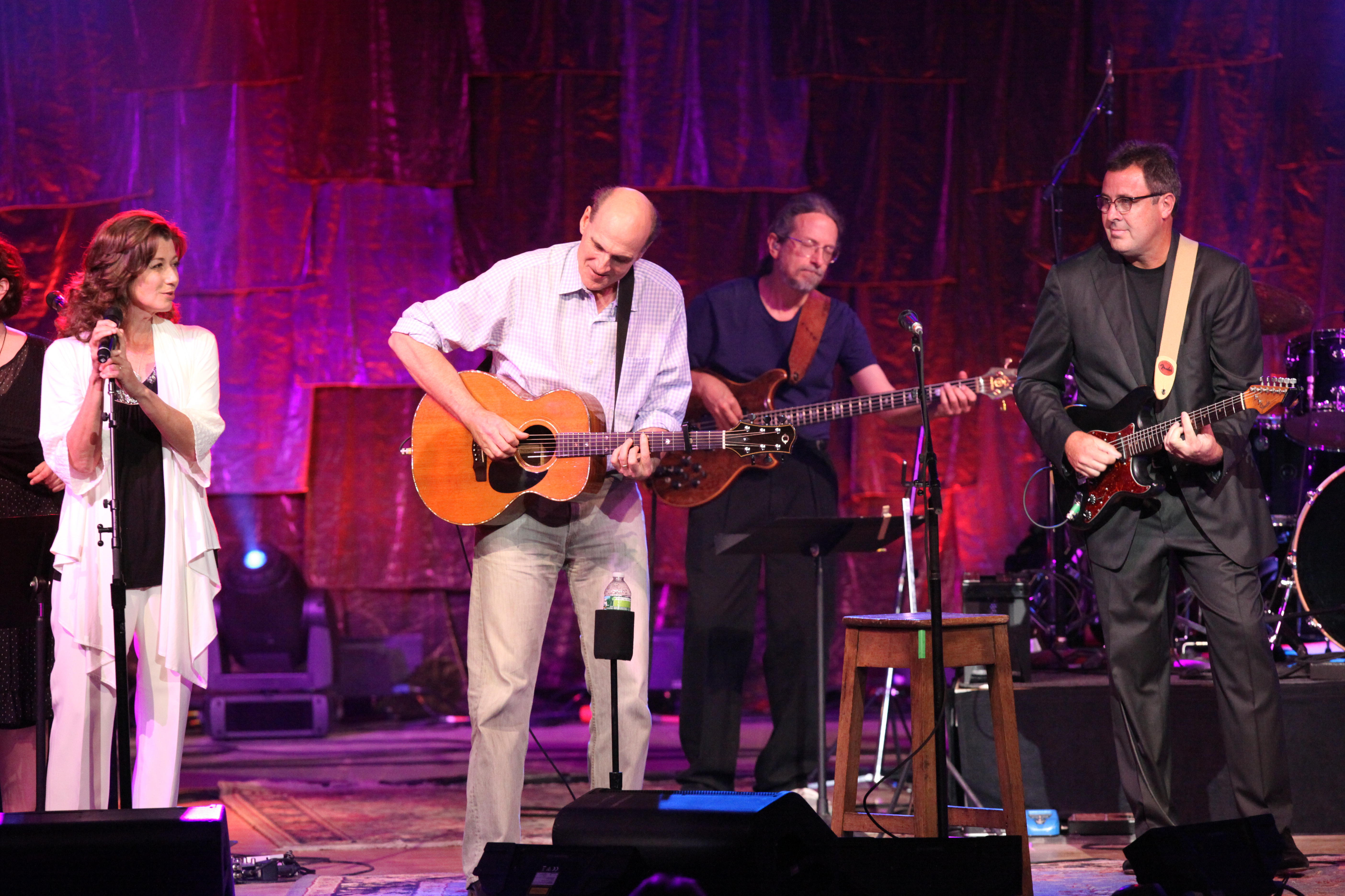 Amy Grant, James Taylor, and Vince Gill performing together at Tanglewood in Stockbridge, Massachusetts, United States